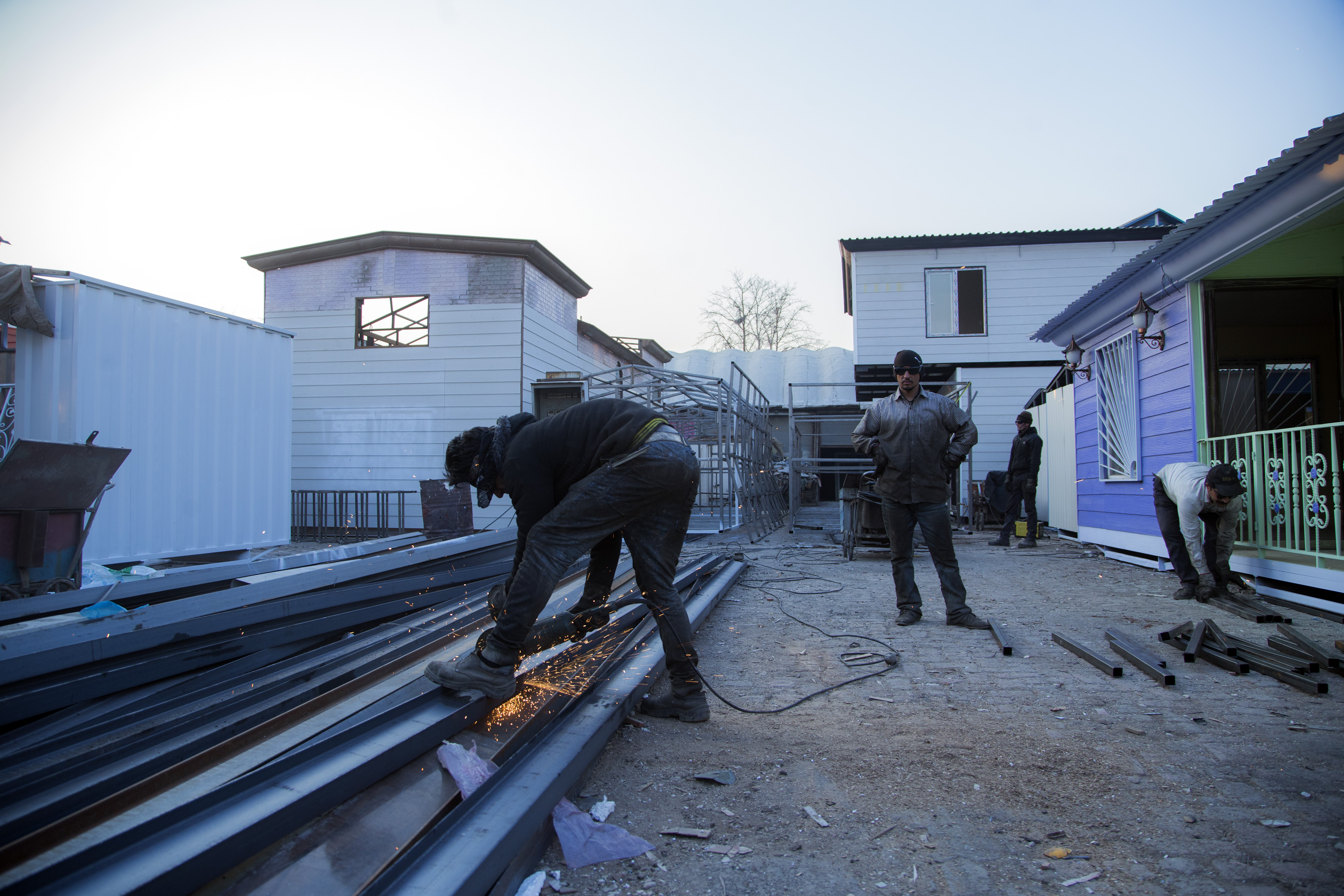 A shelter is a basic architectural structure or building that provides protection from the local environment.